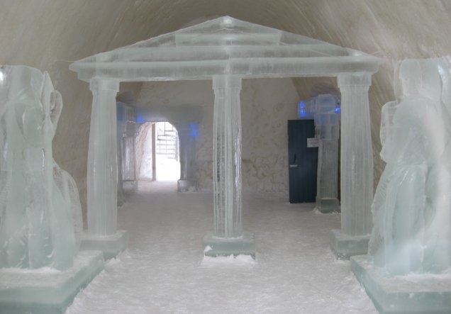 SnowCastle in Kemi, Finland.